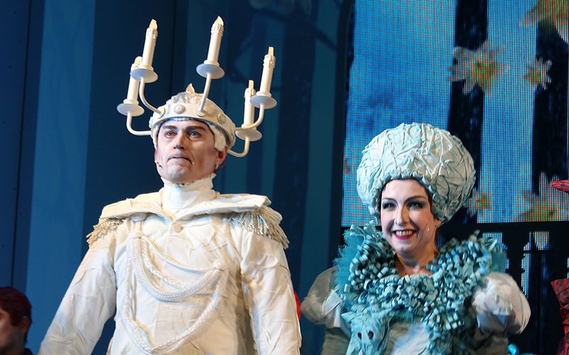 Original cast of "All about Cinderella"